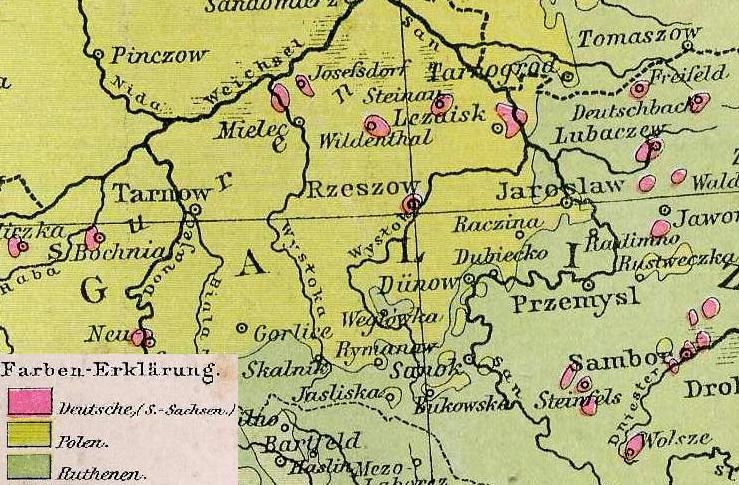 Ethnographic map of Austria-Hungary (census 1880). (Galicia).